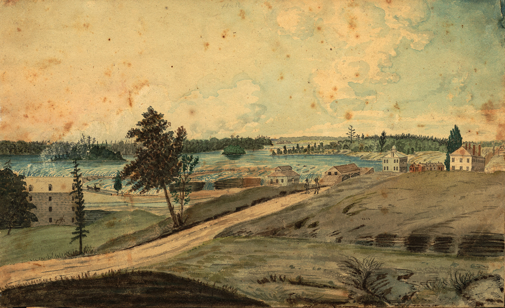 View of the settlement at Hull, the Chaudière Falls and Bytown across the Ottawa River.